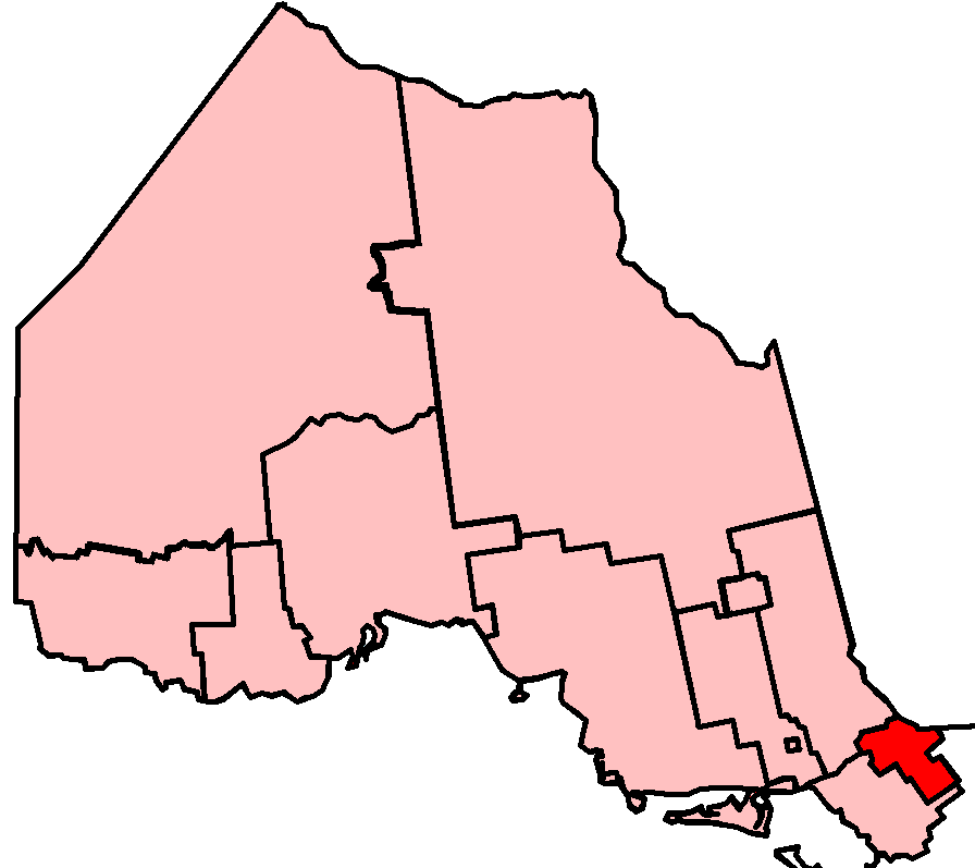 Nipissing 2018 boundaries